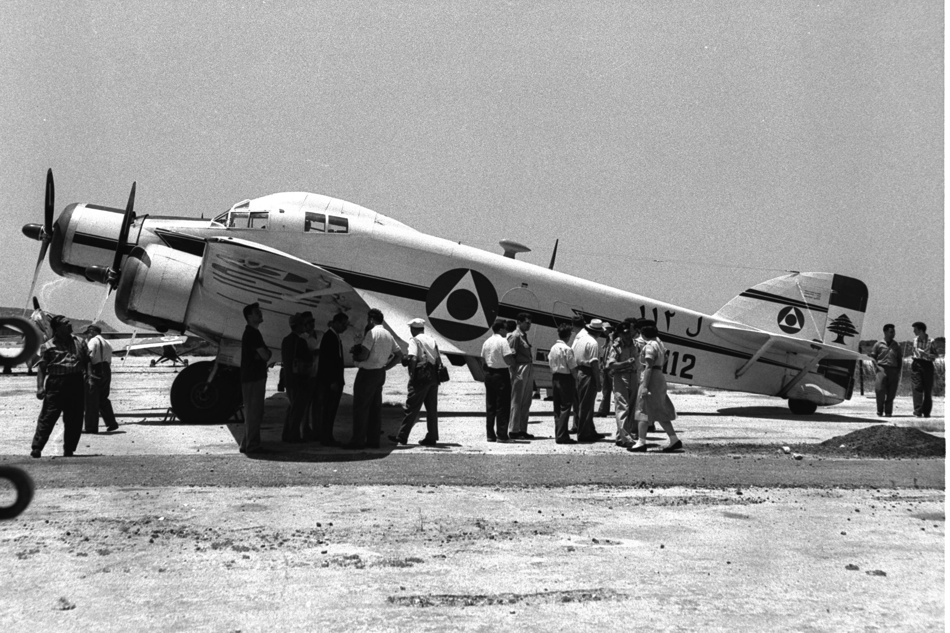 THE LEBANESE PLANE, A SAVOYA MARCHETTI 79MB - 1935 WHICH WAS BROUGHT DOWN BY THE ISRAEL AIR FORCE WHILE FLYING OVER ISRAEL TERRITORY.